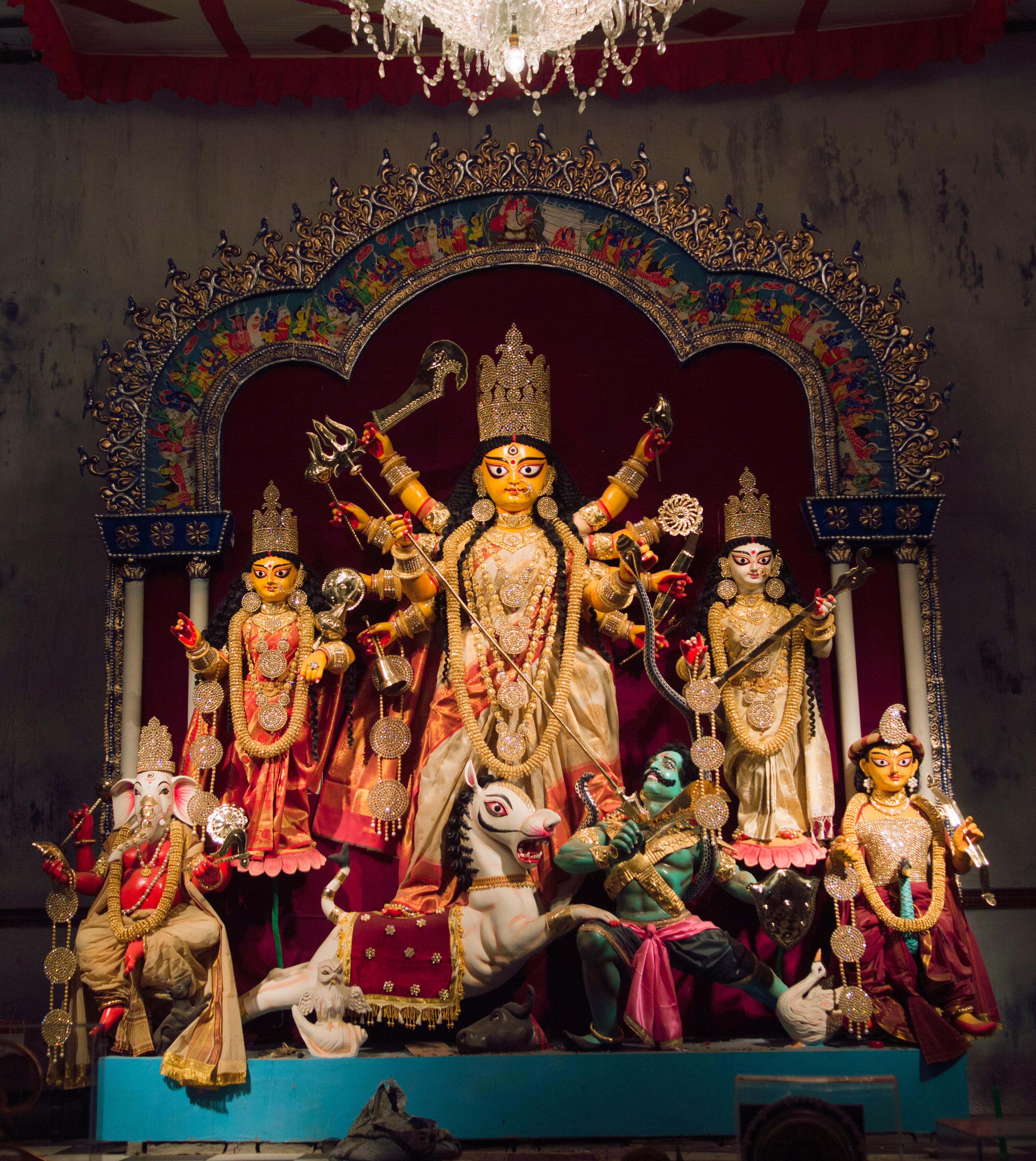 Durga Puja, also called Durgotsava, is an annual Hindu festival in the Indian subcontinent that reveres the goddess Durga. It is particularly popular in West Bengal, Bihar, Jharkhand, Odisha, Assam, Tripura, Bangladesh and the diaspora from this region, and also in Nepal where it is called Dashain. The festival is observed in the Hindu calendar month of Ashvin, typically September or October of the Gregorian calendar, and is a multi-day festival that features elaborate temple and stage decorations (pandals), scripture recitation, performance arts, revelry, and processions. It is a major festival in the Shaktism tradition of Hinduism across India and Shakta Hindu diaspora.